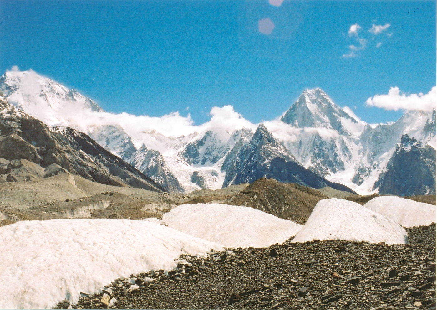 Broad Peak (left) and Gasherbrum IV from the Baltoro Glacier